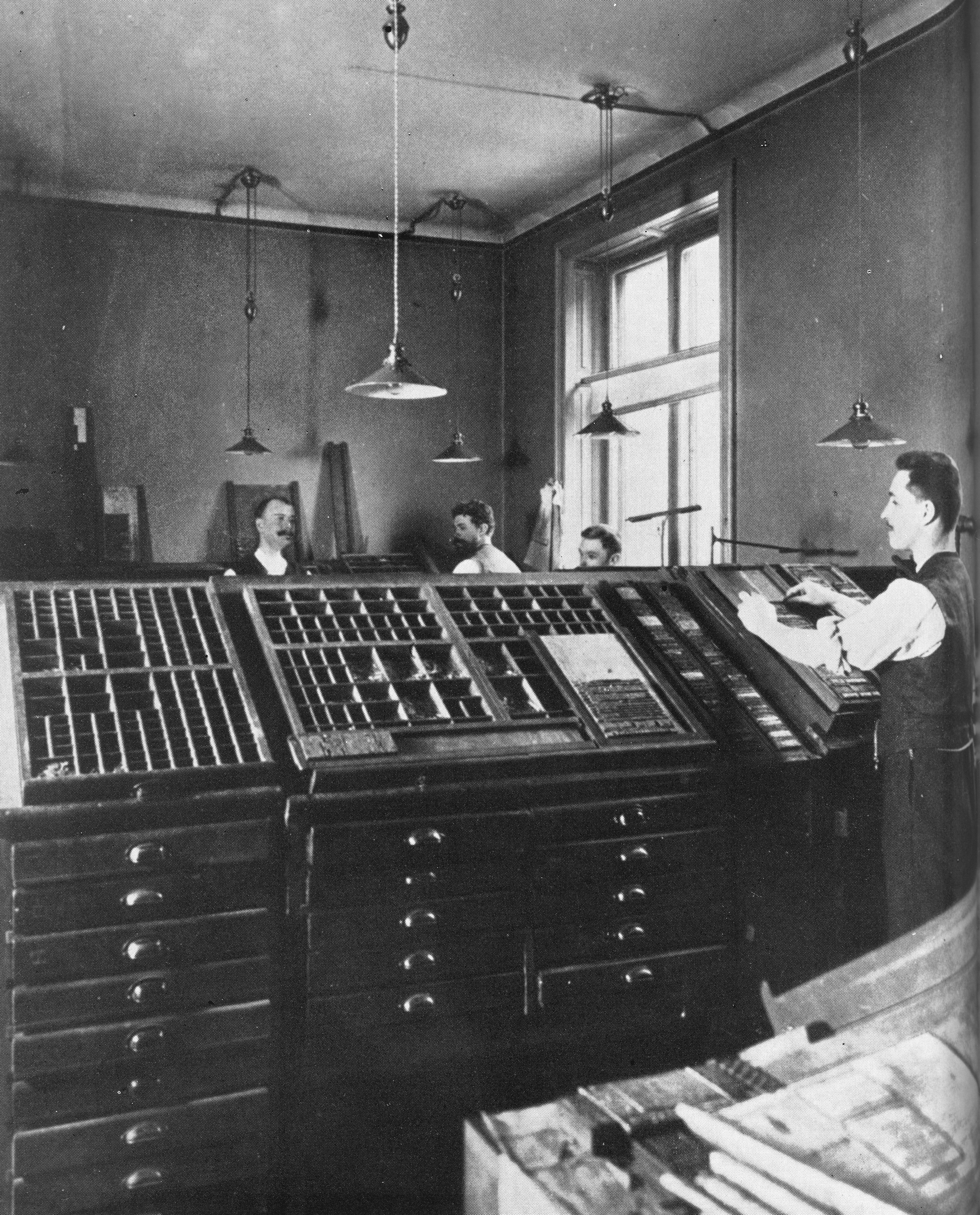 Compositors working in the case department of Svenska Dagbladet in 1904.